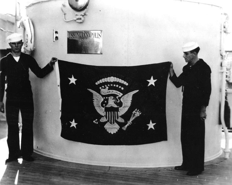 Crewmen aboard the U.S. Navy heavy cruiser USS Indianapolis (CA-35) display the Presidential Flag below the ship's brass data plaque, as she carried President Franklin D. Roosevelt on his "Good Neighbor" cruise to South America in late November 1936.